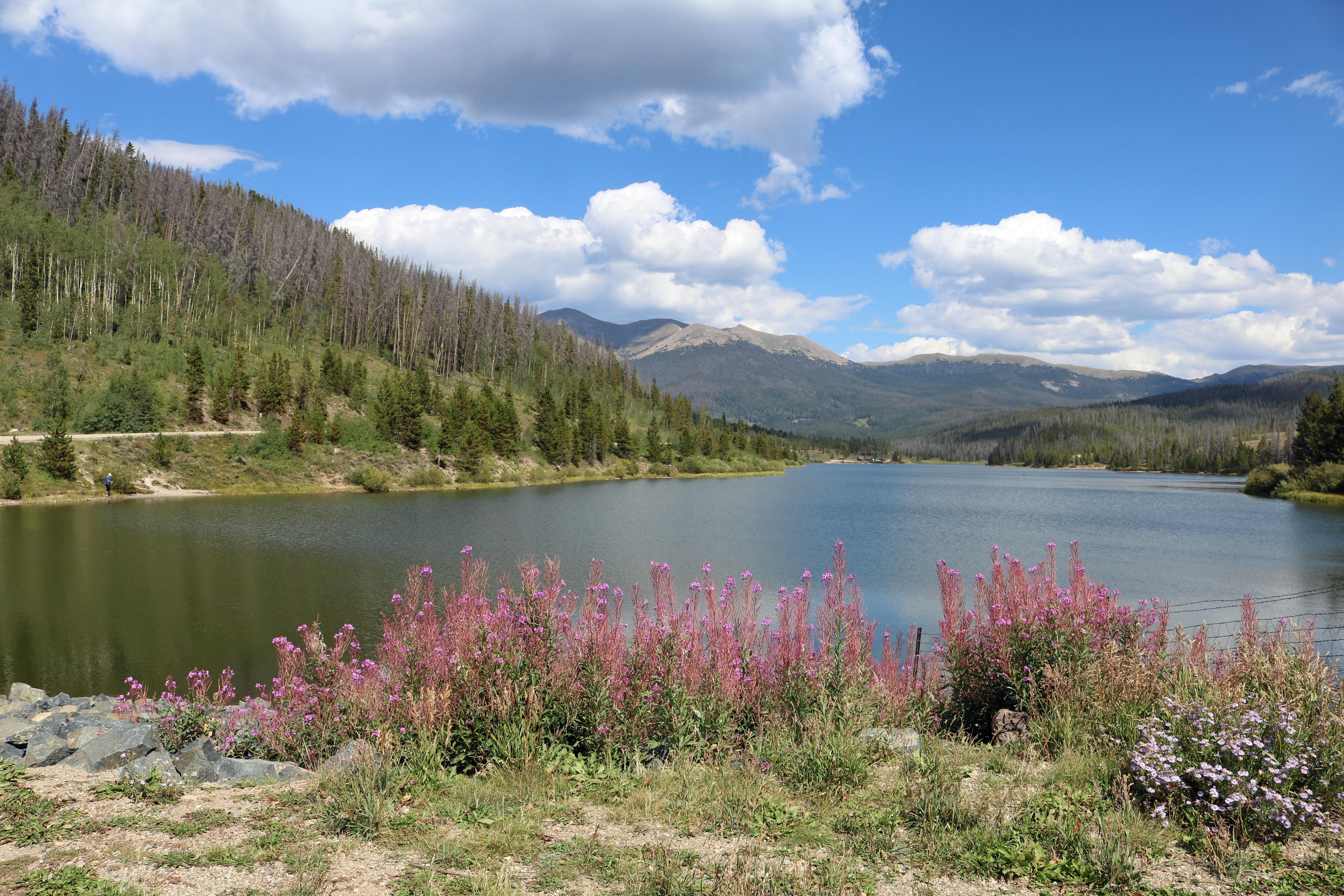 North Michigan Creek Reservoir in State Forest State Park in Jackson County, Colorado. The view is from the dam. The reservoir impounds North Michigan Creek. It is also called North Michigan Reservoir.